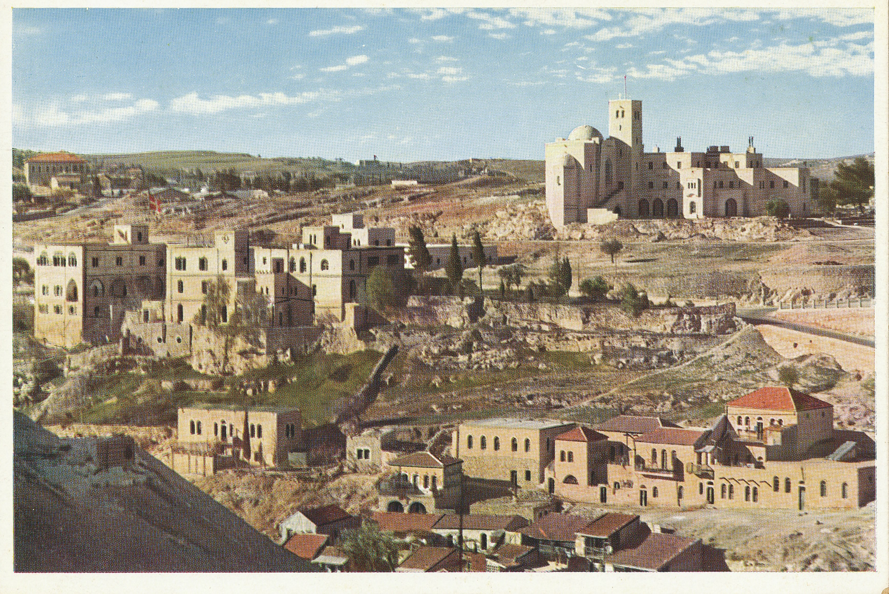 Jerusalem. The Scotch Hostel. L'Hospice Eccossais. Das schottische Hospiz. (aka St Andrews)